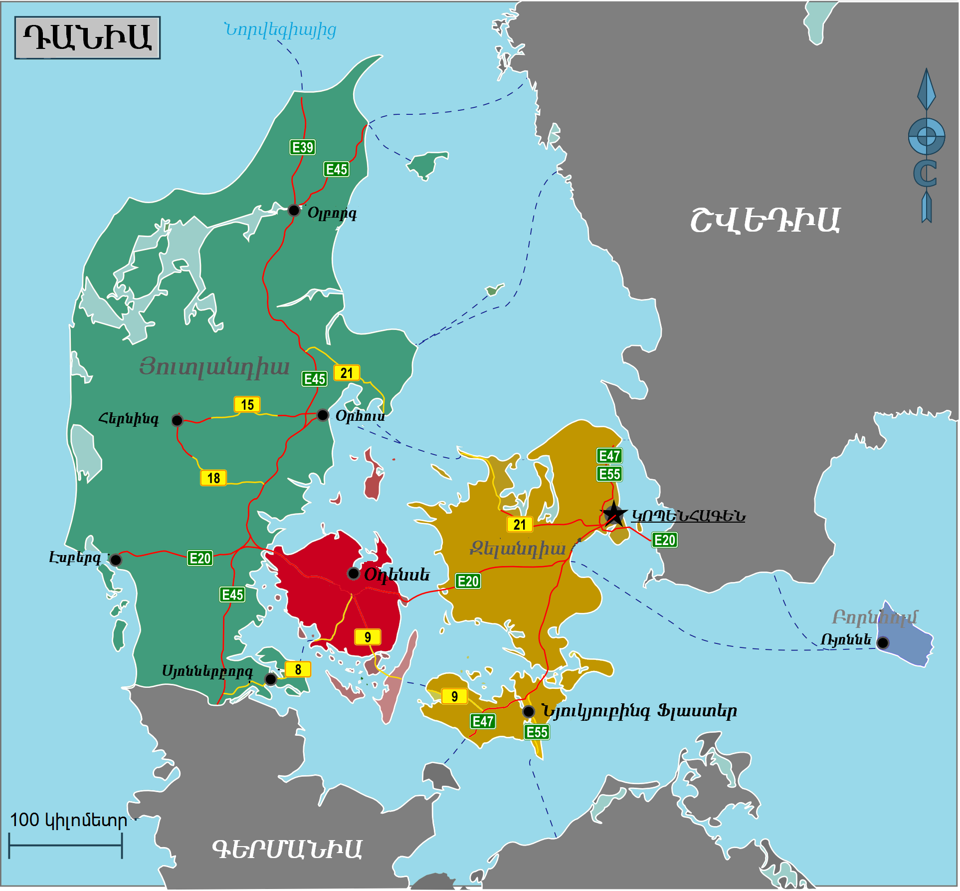 Denmark regions